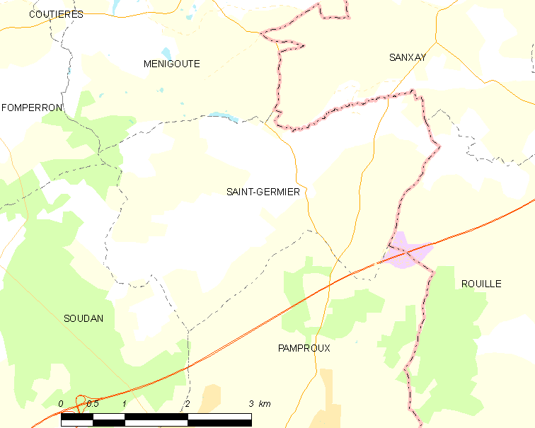 Map of French municipality Saint-Germier